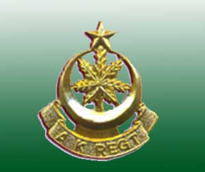 Standard/ Coat of Arms of the Azad Jammu Kashmir Regiment aka AK Regiment of the Pakistan Army